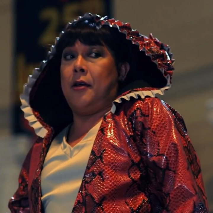 Shake, Rattle and Roll XV Official Trailer - John Lapus